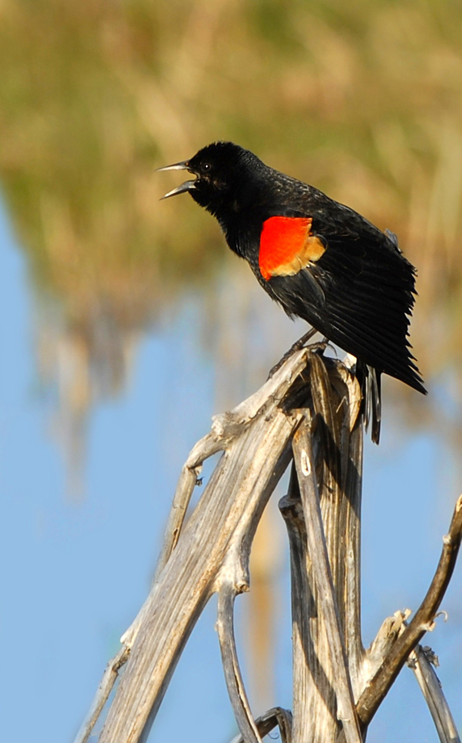 Red-winged Blackbird (Lake Woodruff National Wildlife Refuge). Singing his heart out :)